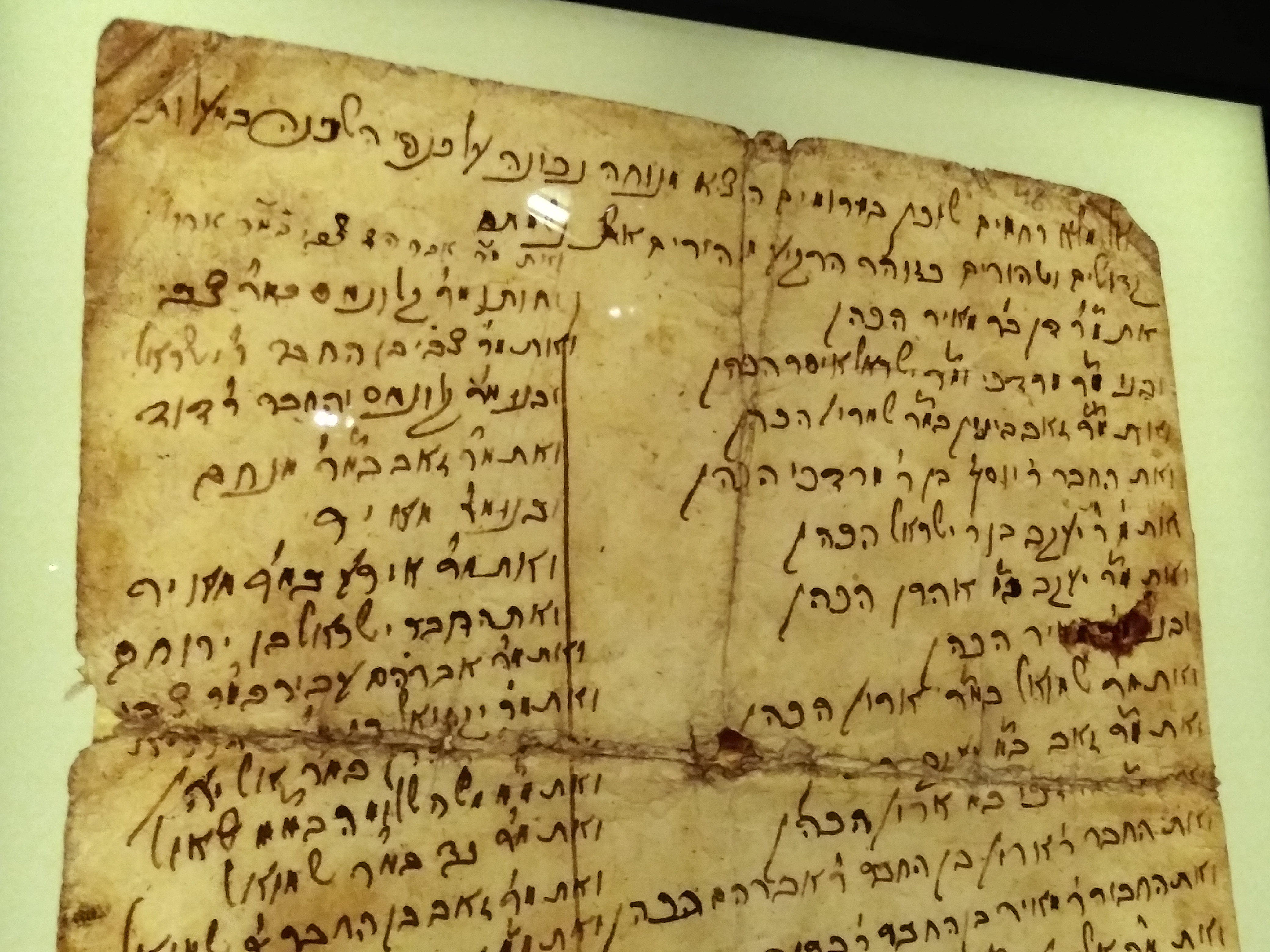 List of jews slaughtered by Cossacks Narol in 1648. Hebrew script, 1648. POLIN Museum of the History of Polish Jews